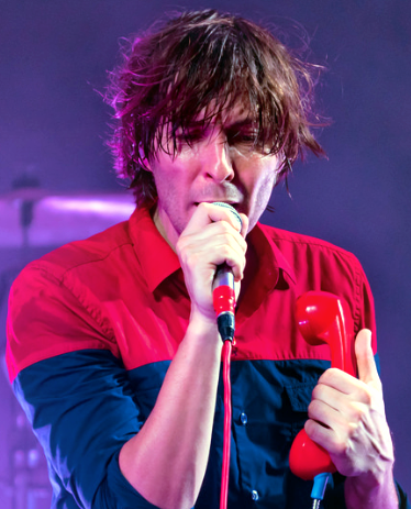 Thomas Mars of Phoenix performing in October 2018